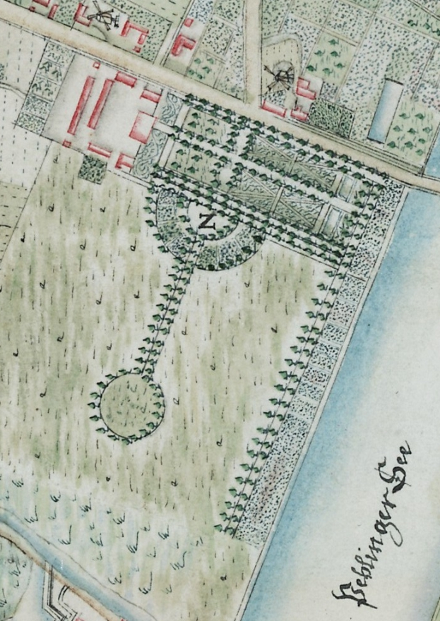 Map detail showing the tree-lined driveway that led up to Blågård from Nørrebrogade in present-day Nørrebro, Copenhagen, Denmark